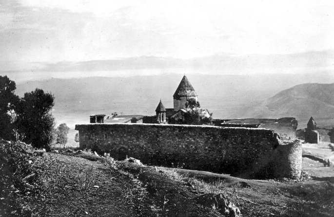 Armenian monastery of Saint Apostles in Moush, Western Armenia, now Turkey